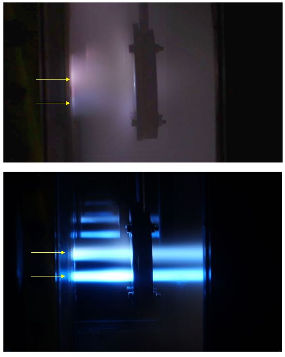 Plasma, blown into vacuum chamber, with and without horizontal magnetic field